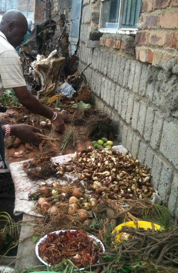 Sangoma & Inyanga, Baba Sylvester preparing & drying out freshly dug up mutis.